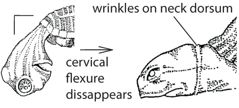 Standard Event System character depiction